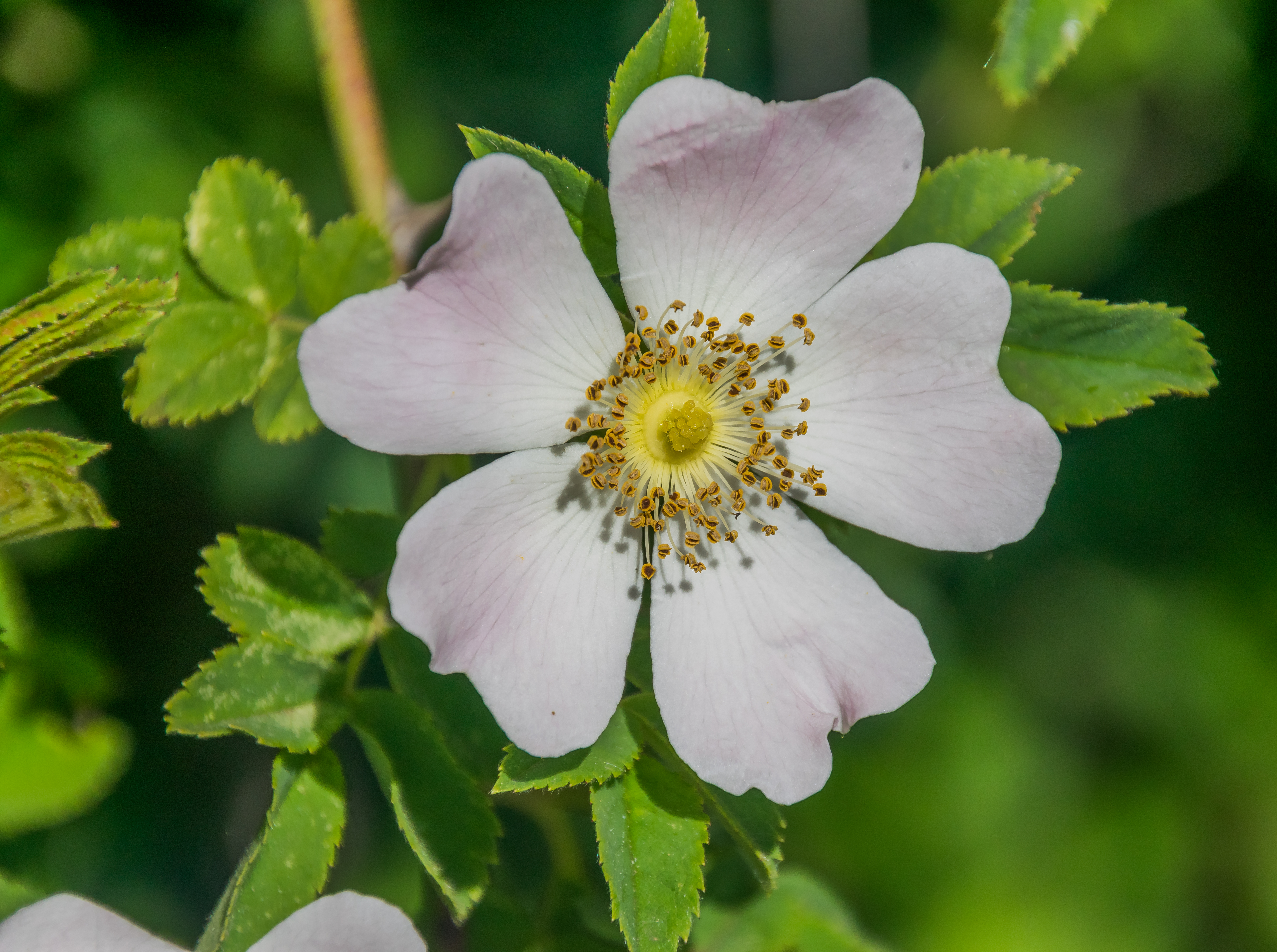 Rosa canina in Saint-Cyprien-sur-Dourdou, Aveyron, France